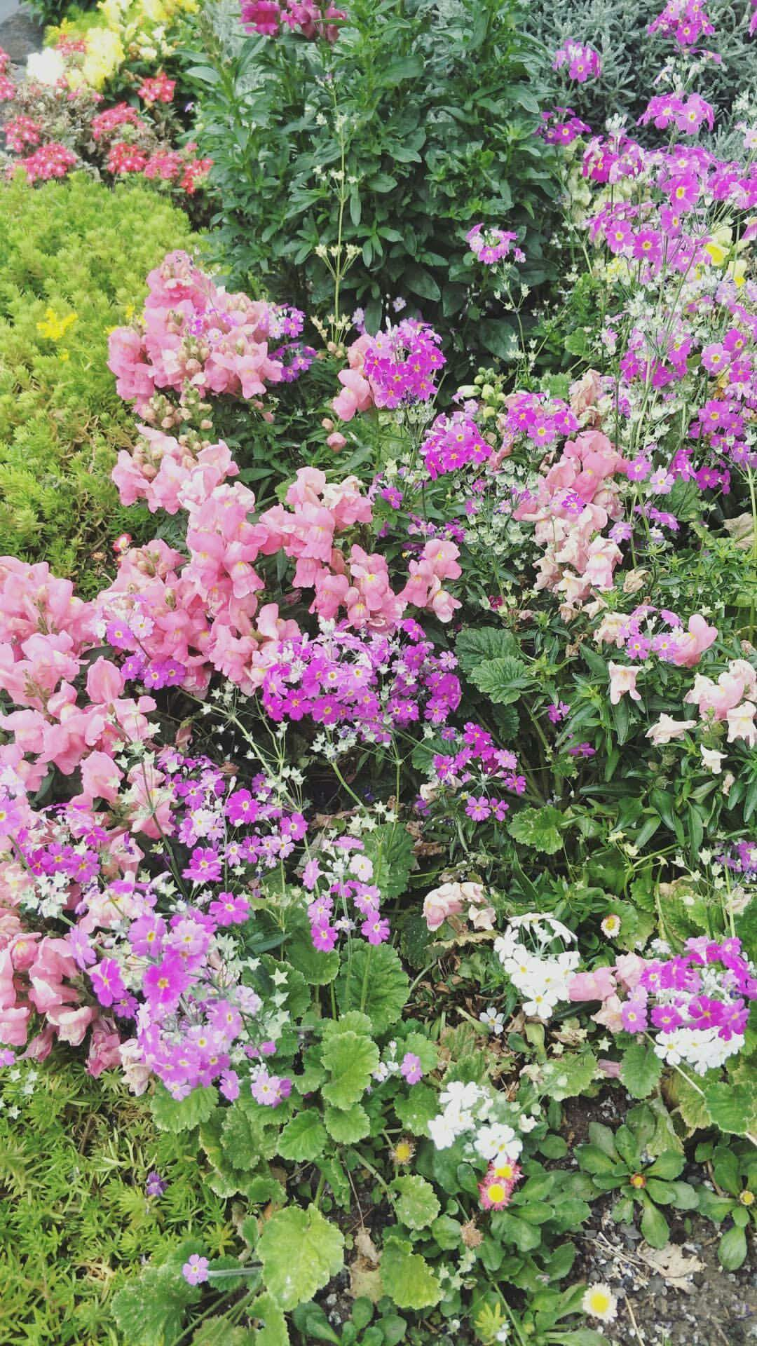 Pink and purple flowers in farm garden, NSW South Coast